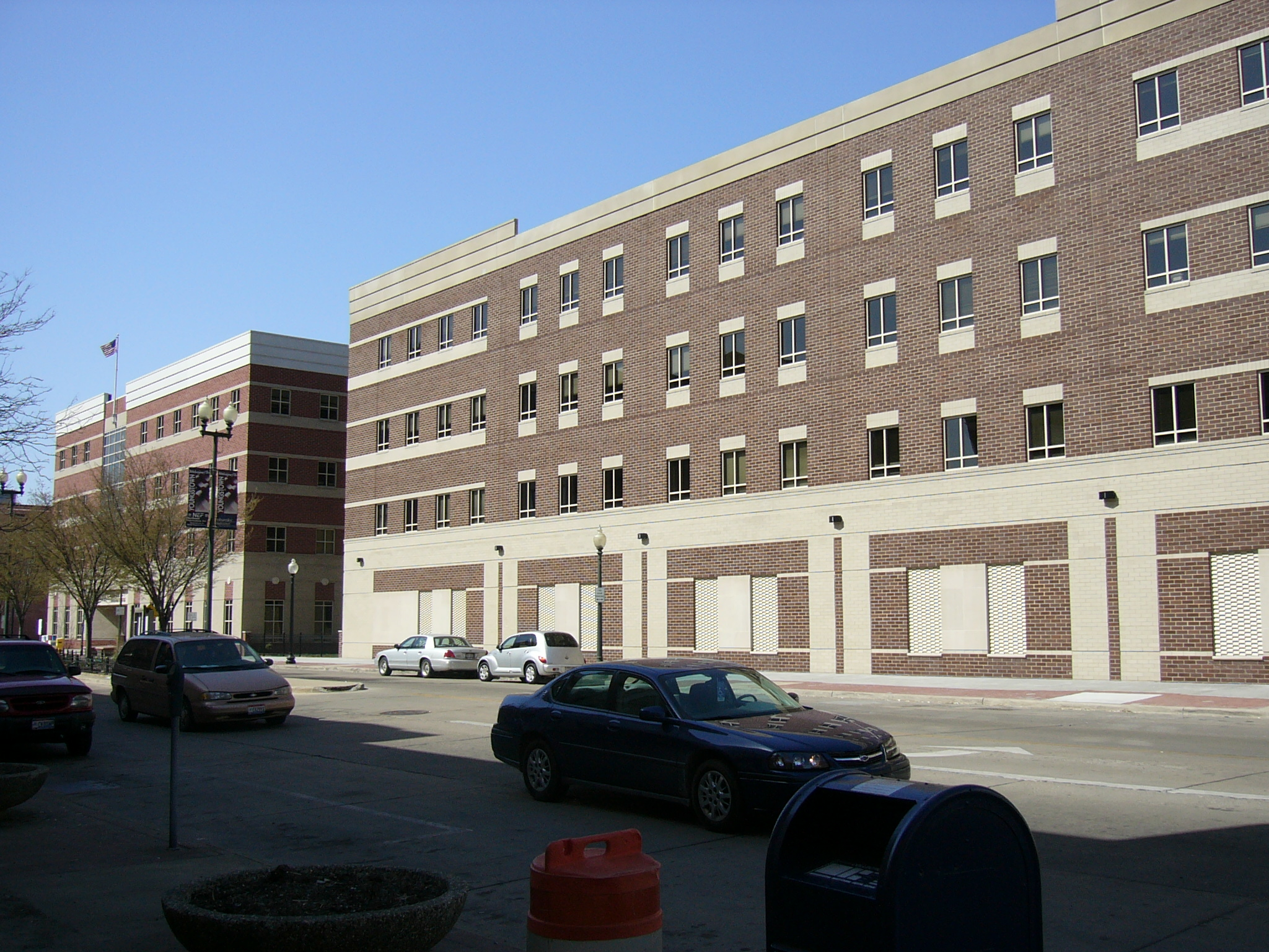 The George Voinovich Center (left) and Mahoning County Childrens Services Center (right) in downtown Youngstown.